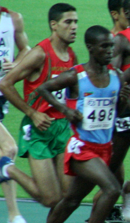 World Athletics Championships 2007 in Osaka - Scene from heat 2 of the qualification round of the men*s 5000 metres: Mourad Marofit, Ali Abdalla